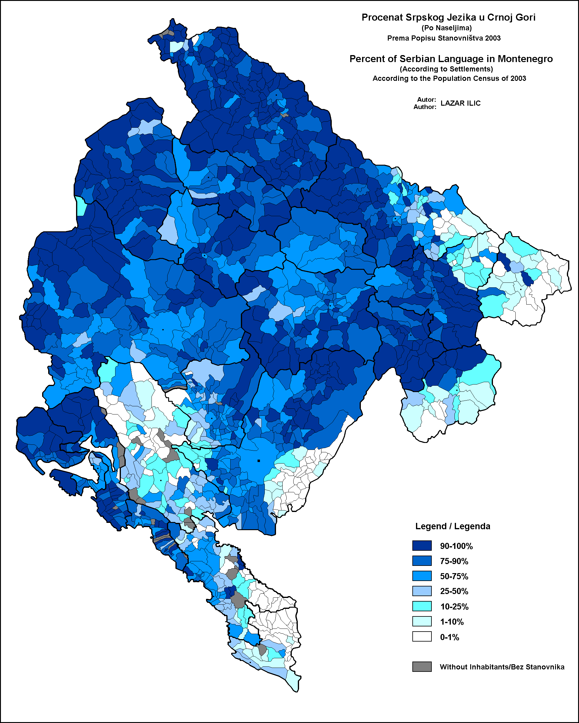 Map of percent of Serbian language in Montenegro.